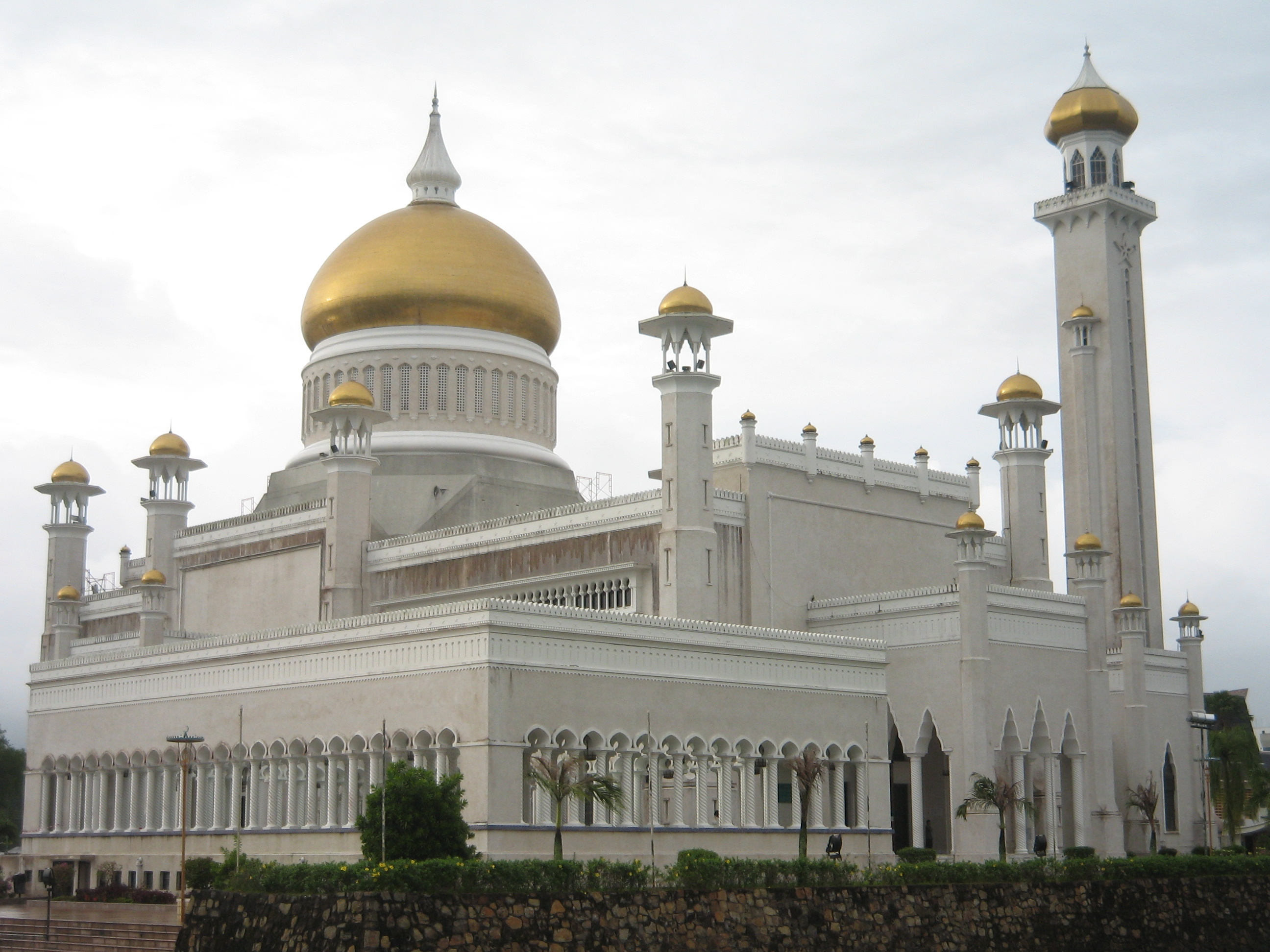 Sultan Omar Ali Saifuddin Mosque — in Bandar Seri Begawan, Brunei. " Yes, that's real gold and it is a royal Islamic mosque located in Bandar Seri Begawan, the capital of the Sultanate of Brunei. The mosque is classified as one of the most spectacular mosques in the Asia Pacific and a major tourist attraction."